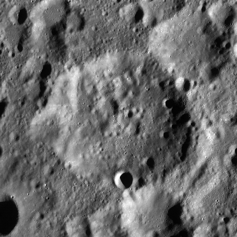 Moore crater, on the far side of the moon. LRO Wide Angle Camera mosaic.